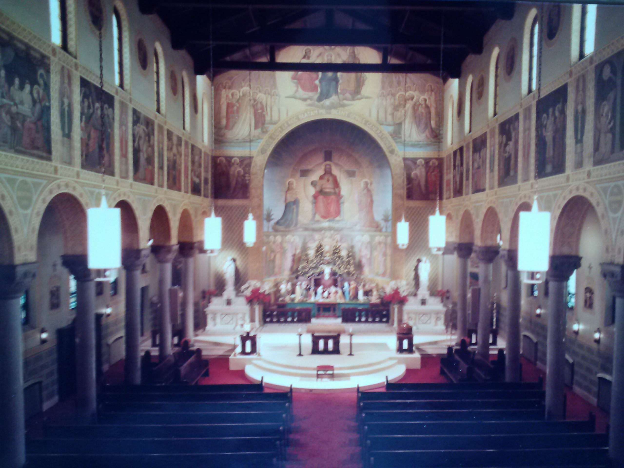 Interior phot of St Mary's German Church, McKeesport, Pennsylvania December 1987